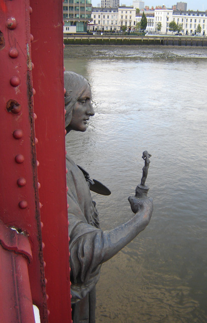 Figure depicting Fine Art, Vauxhall Bridge, London. 29 October 2005. Photographer: Fin Fahey.